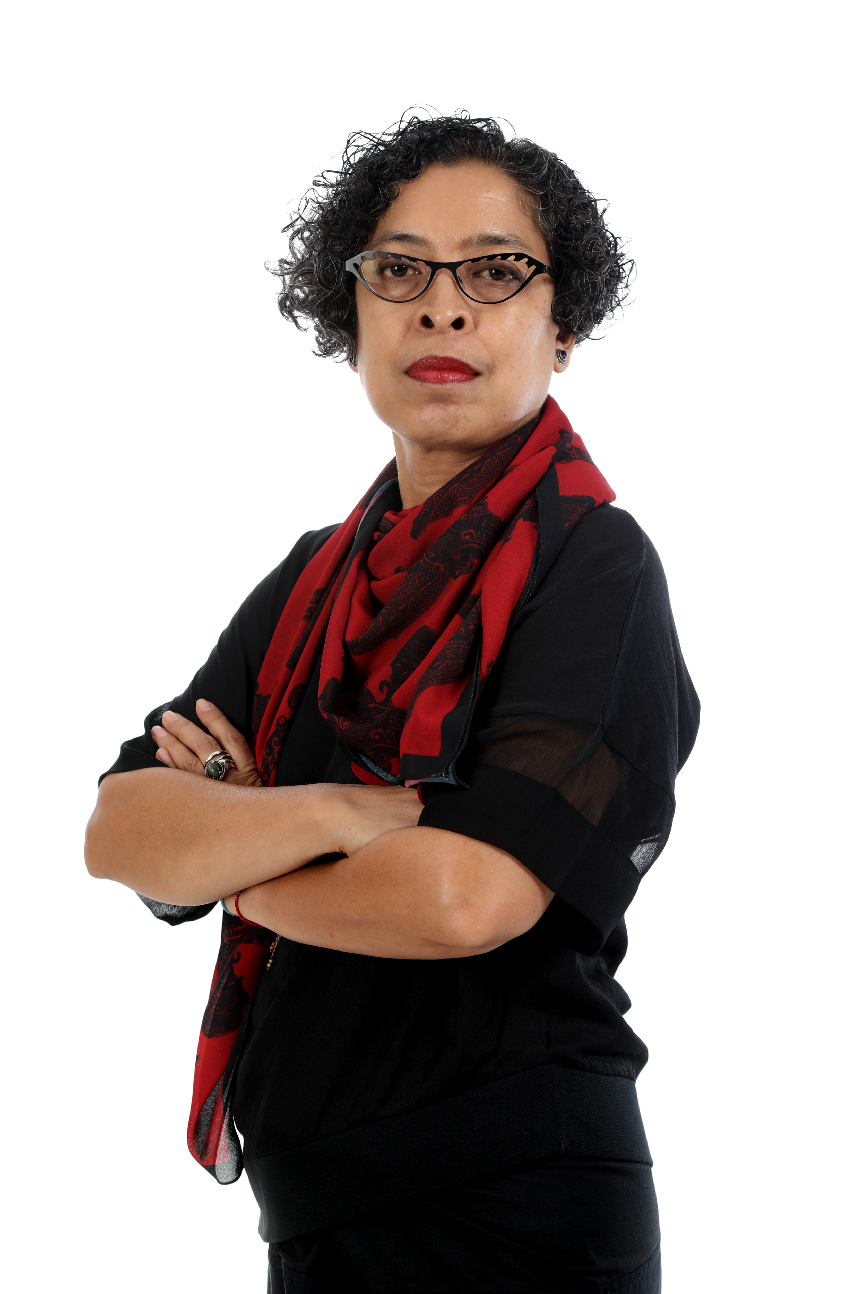 Nyak Ina Raseuki also known as Ubiet, singer, Jakarta, November 4, 2017. (Eva Tobing for Wikimedia)